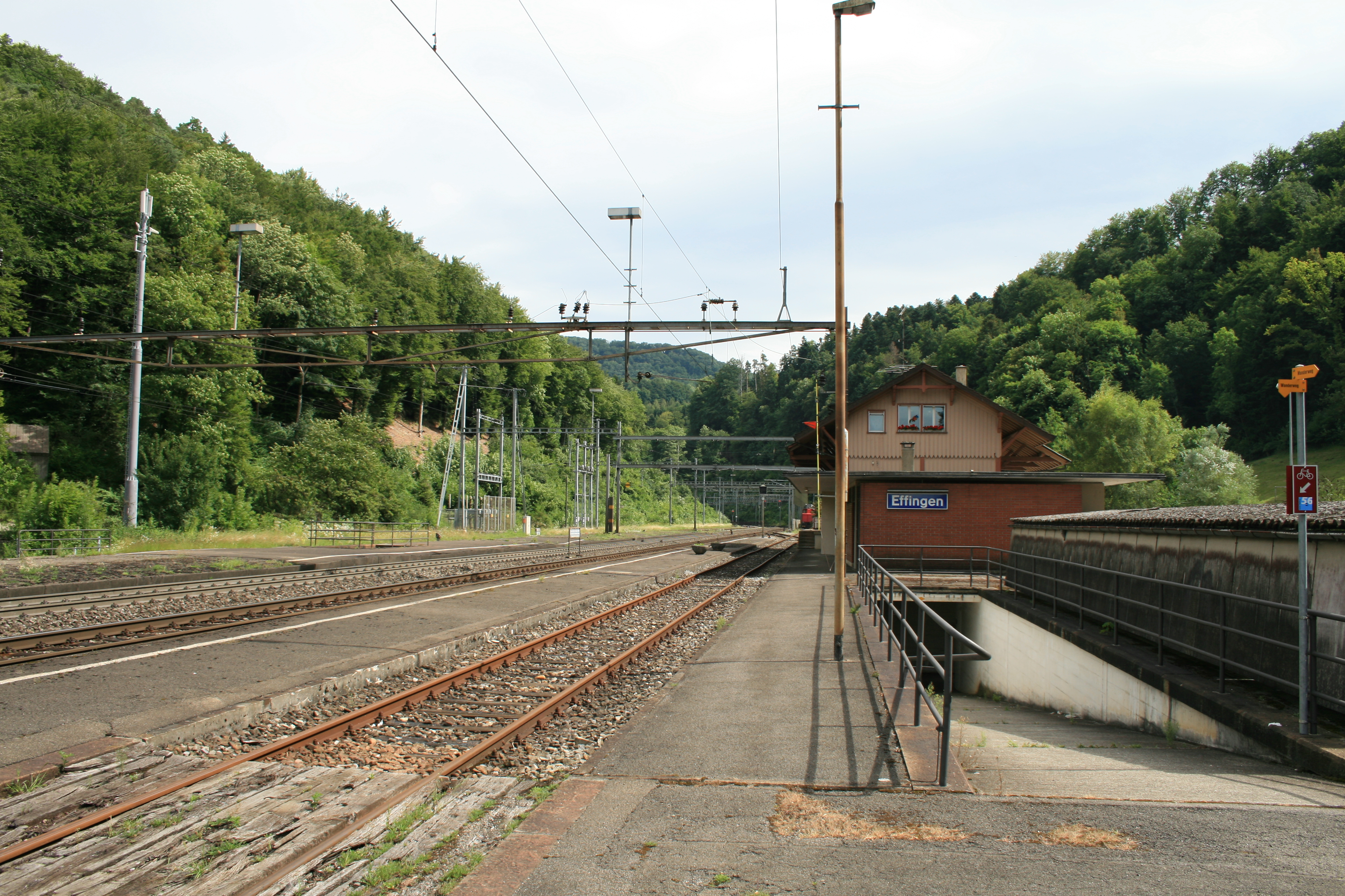 Railwaystation Effingen, Switzerland